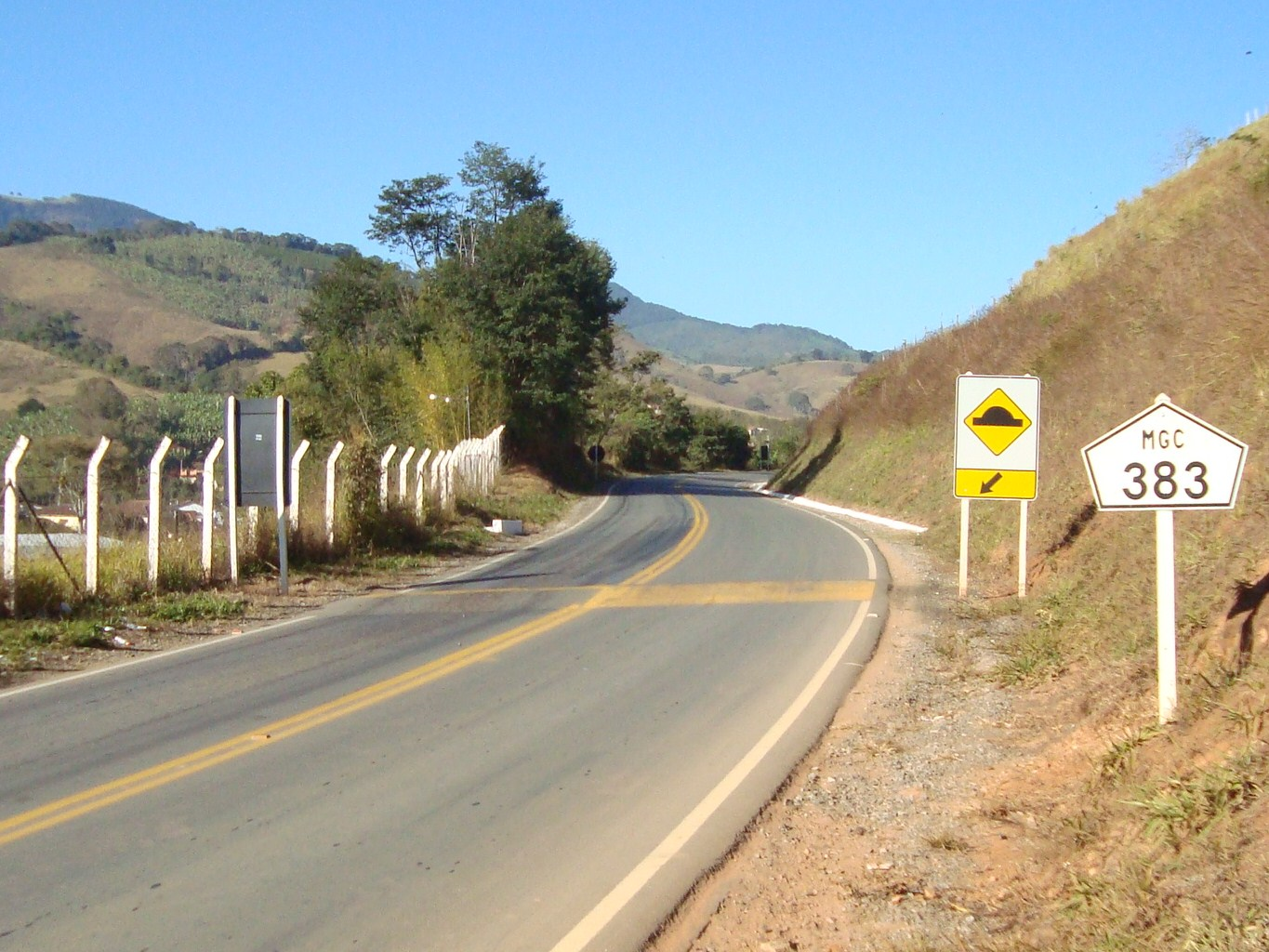 Road MGC-383 in Cristina, Minas Gerais, Brazil